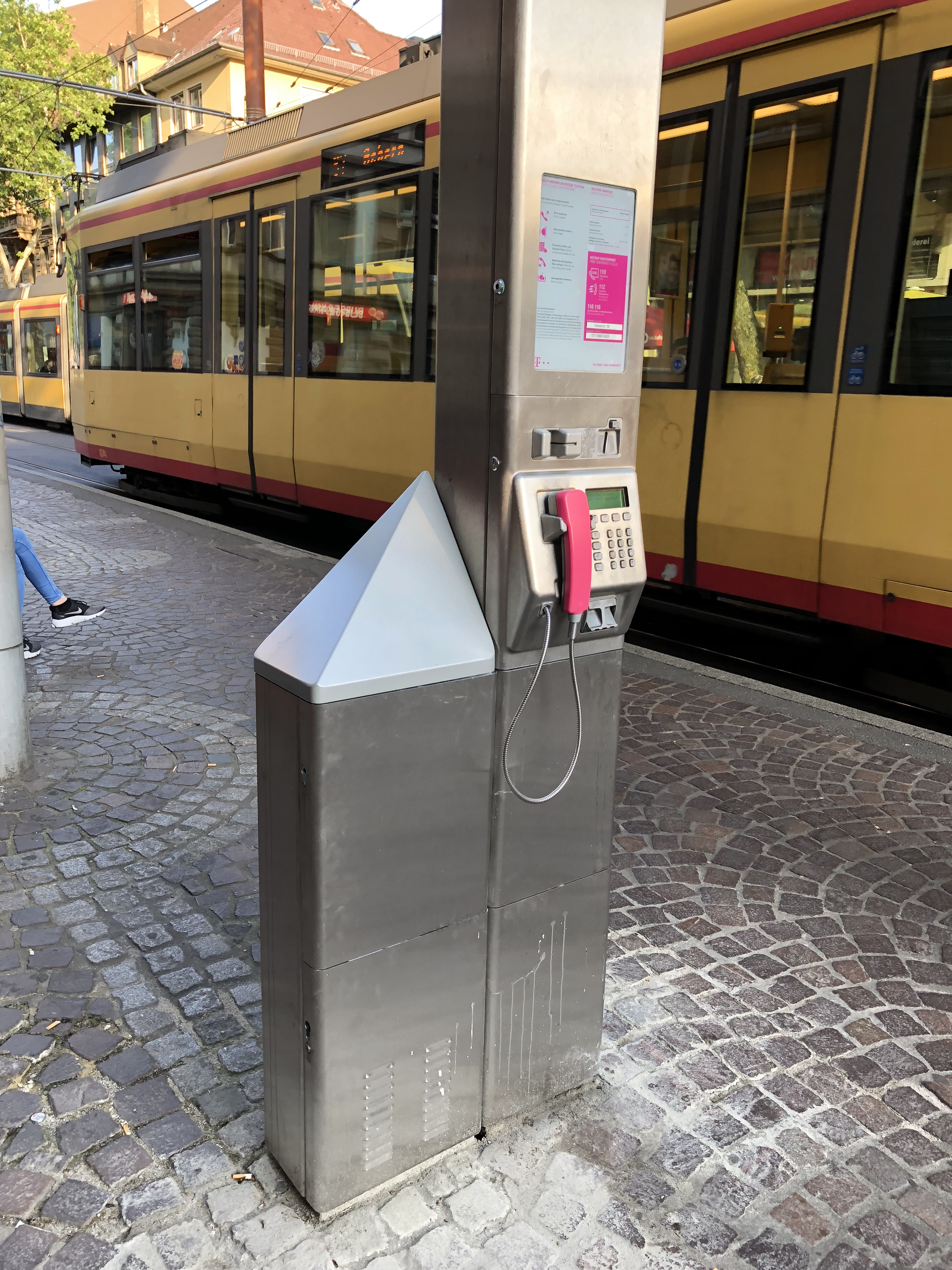 A Deutsche Telecom small cell installed on a pay telephone post in the city of Karlsruhe, Germany